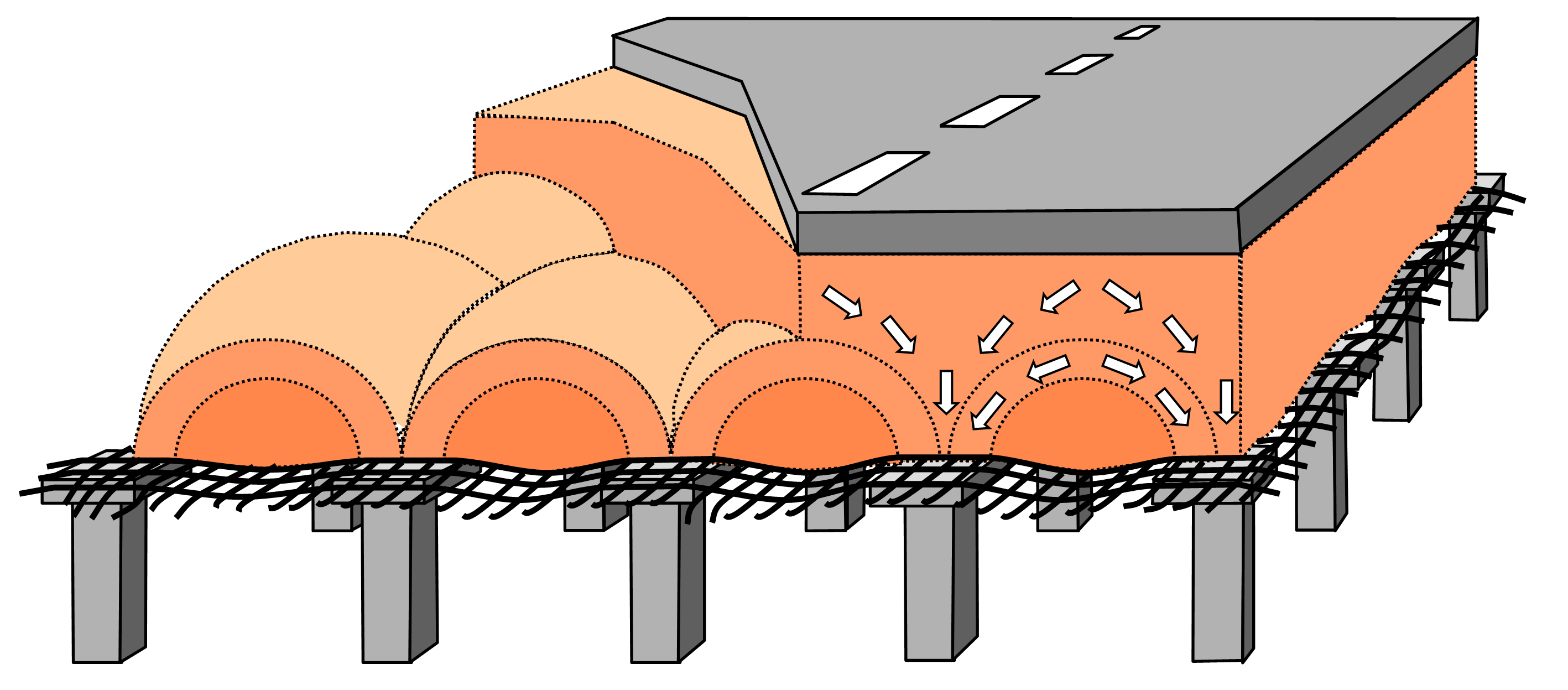 Arching in a piled embankment